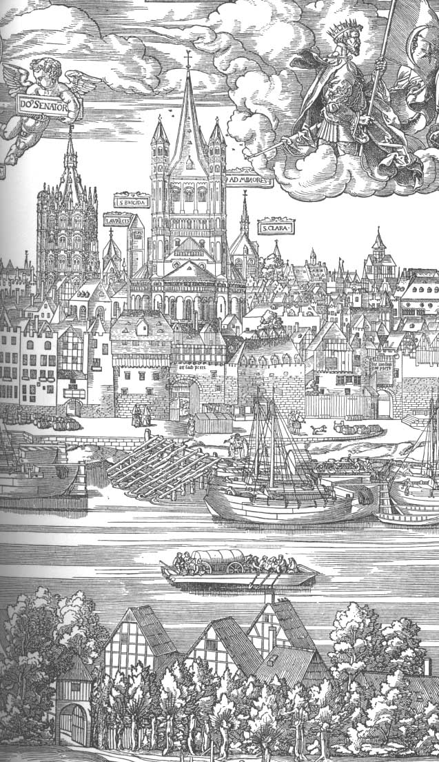 Cologne 1530. Woodcut by Anton von Worms